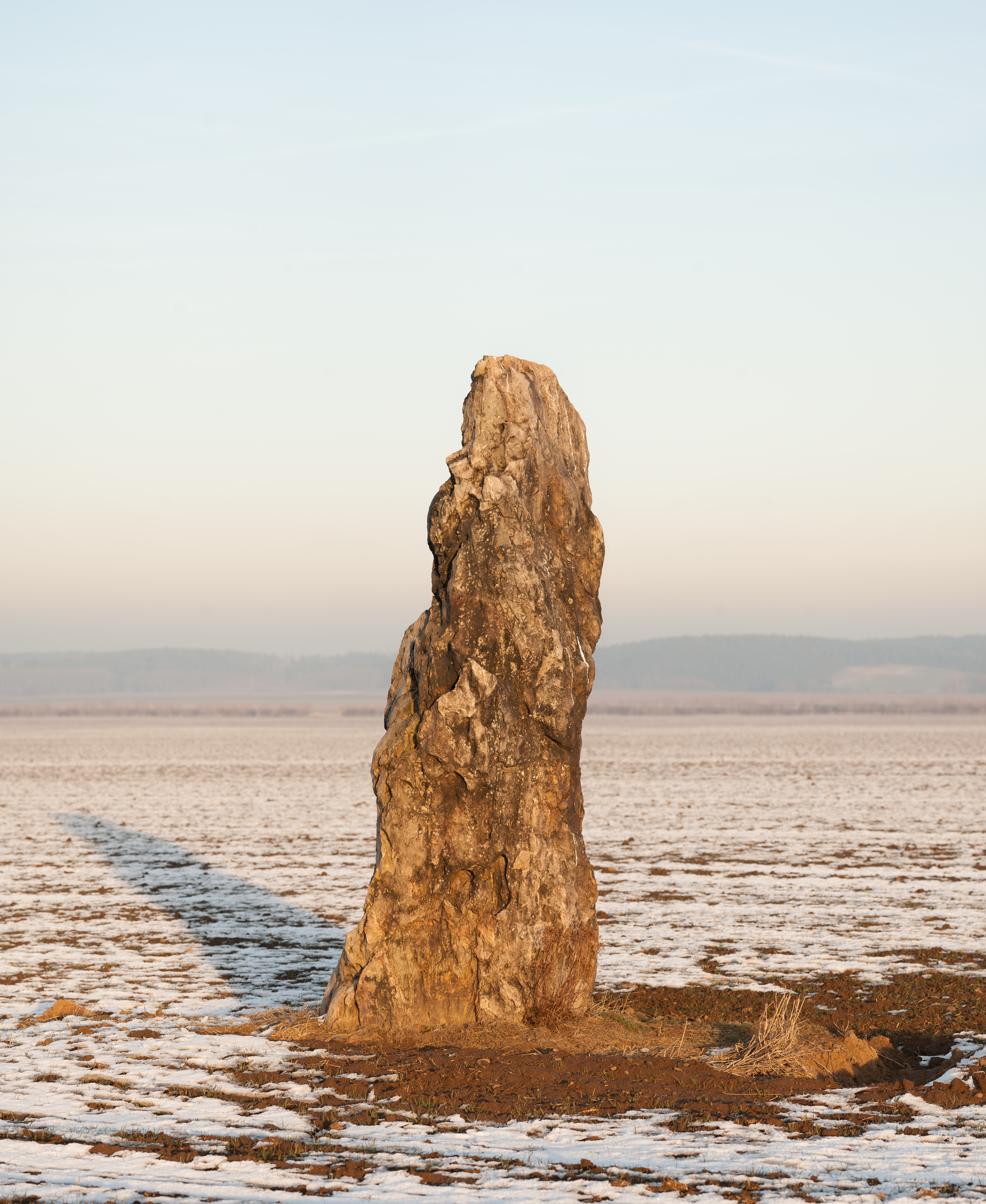 Menhir near Benzingerode in the winter sun, Saxony-Anhalt